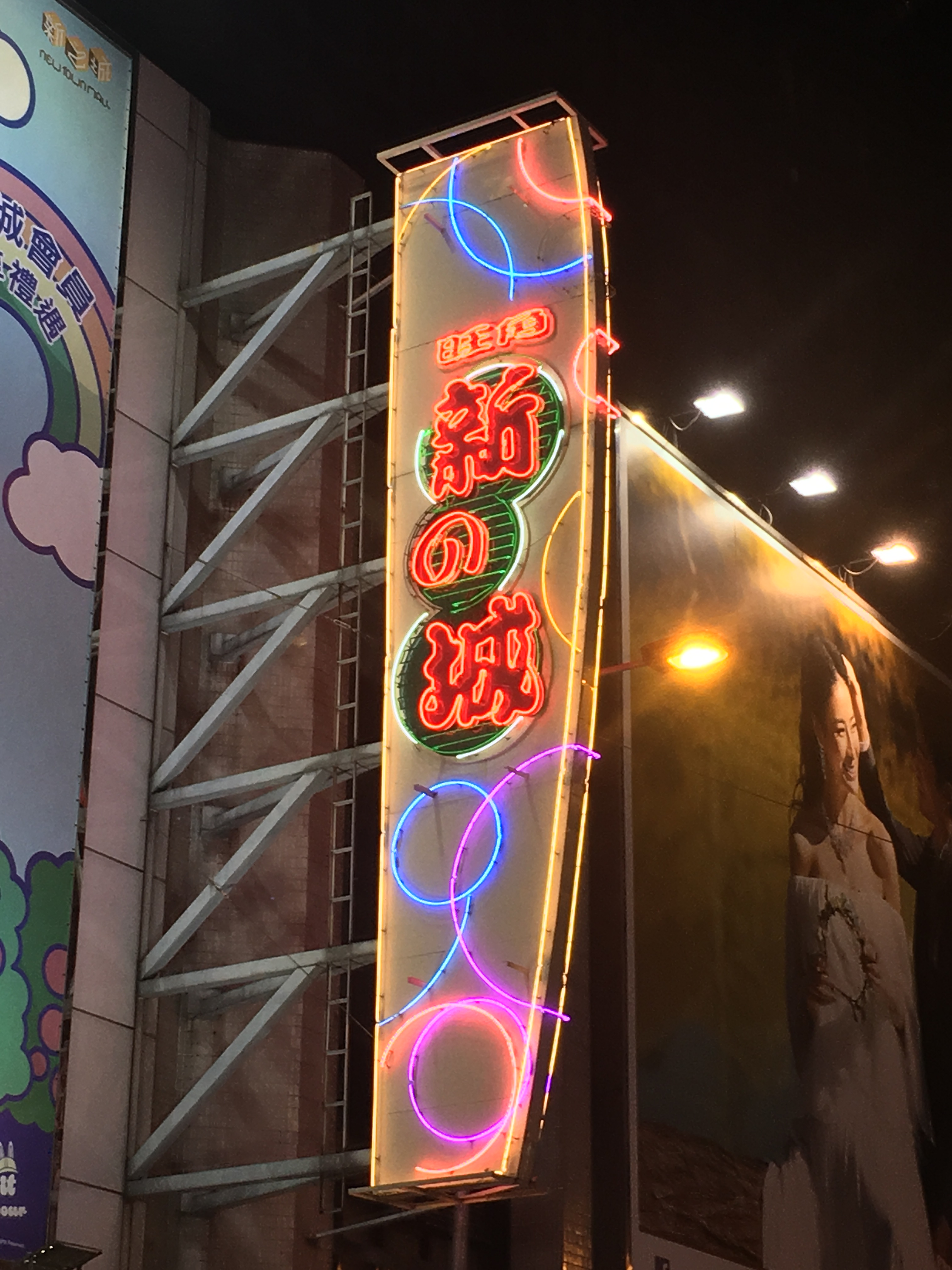 Neon sign of New Town Mall in Mong Kok